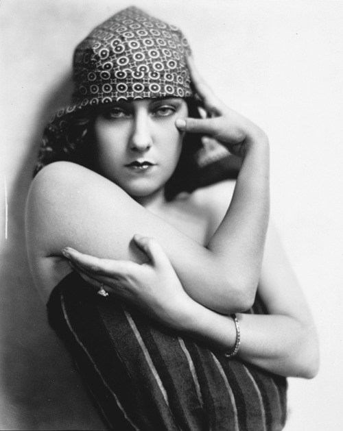 Gloria Swanson